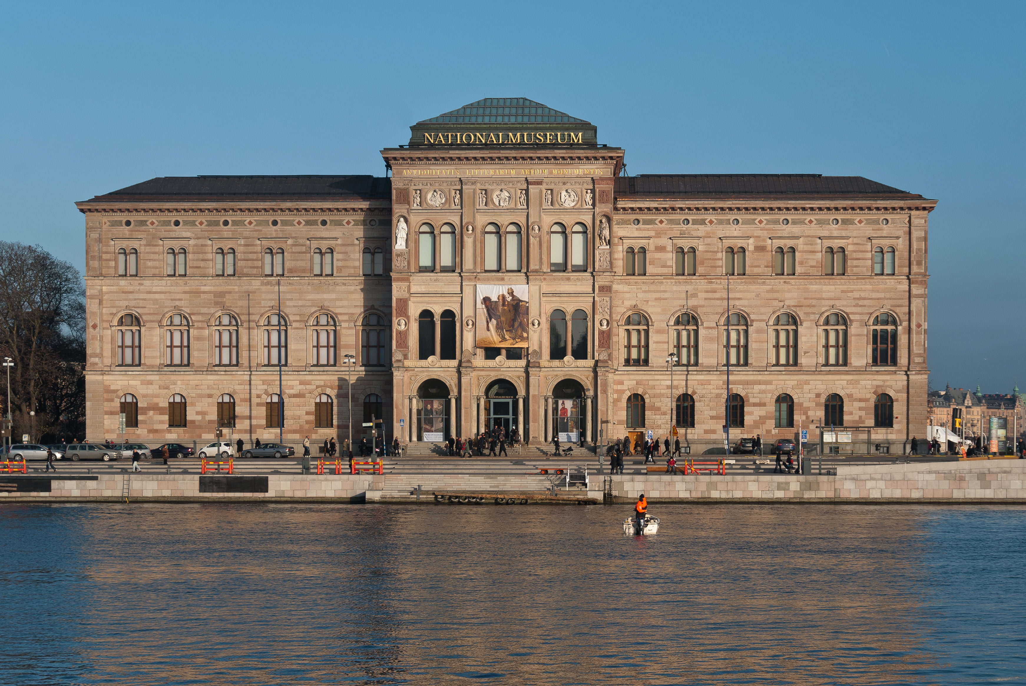 Nationalmusem, Stockhom.